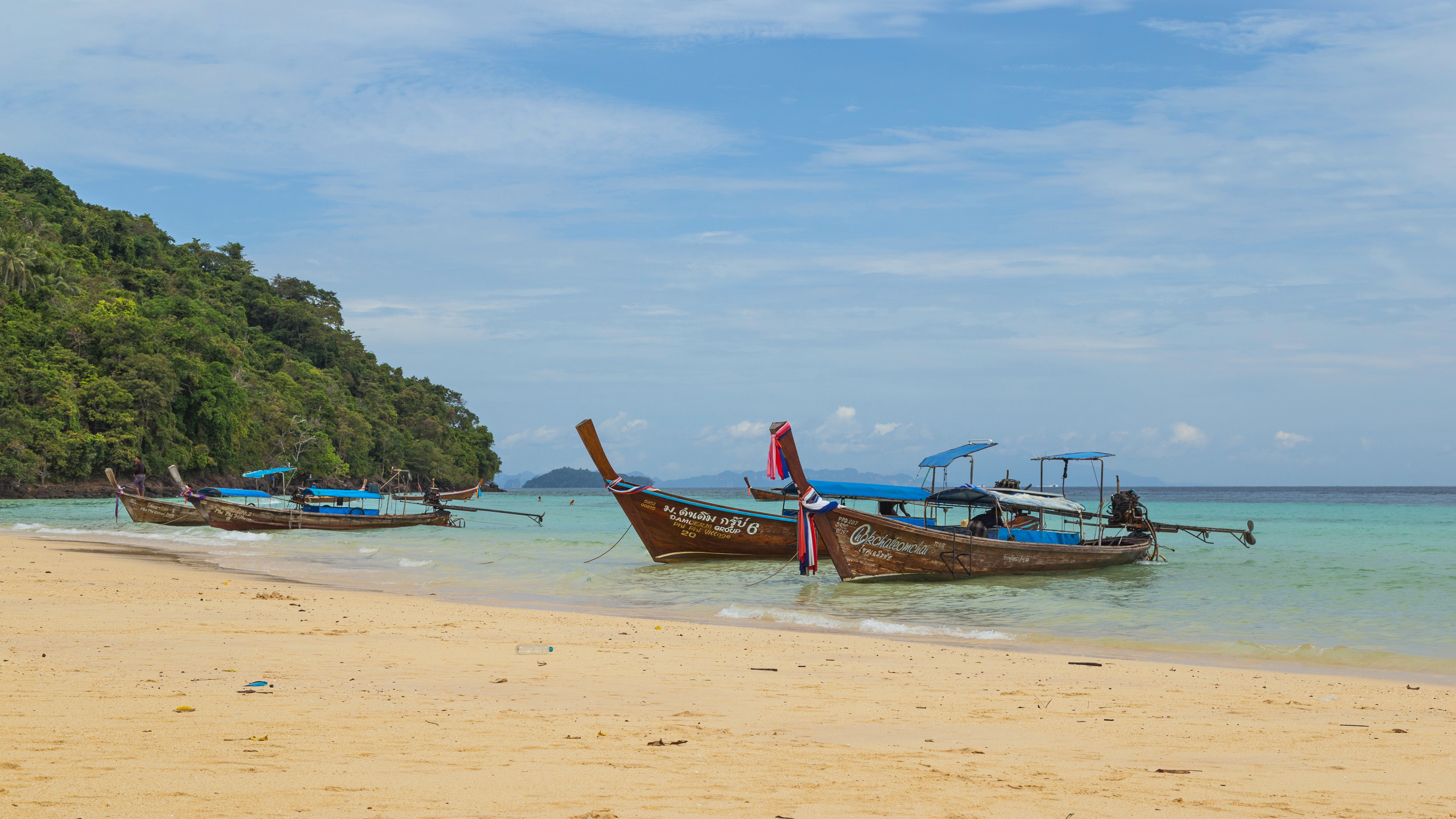 Long-tail boats. Loh Moo Dee Beach. Hat Noppharat Thara–Mu Ko Phi Phi National Park. Ko Phi Phi Don, Mueang Krabi District, Krabi Province, Thailand.